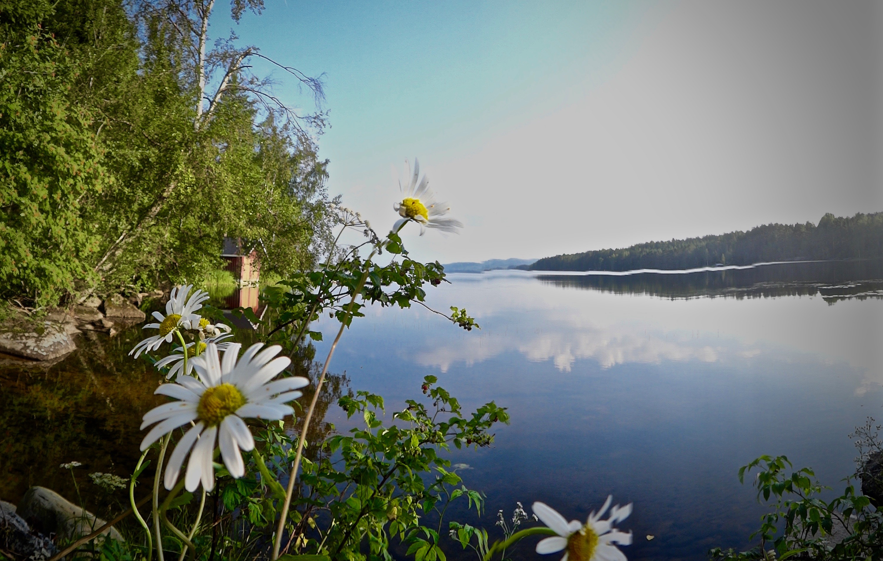 Pyhalahti Beach Lake Keitele Konnevesi